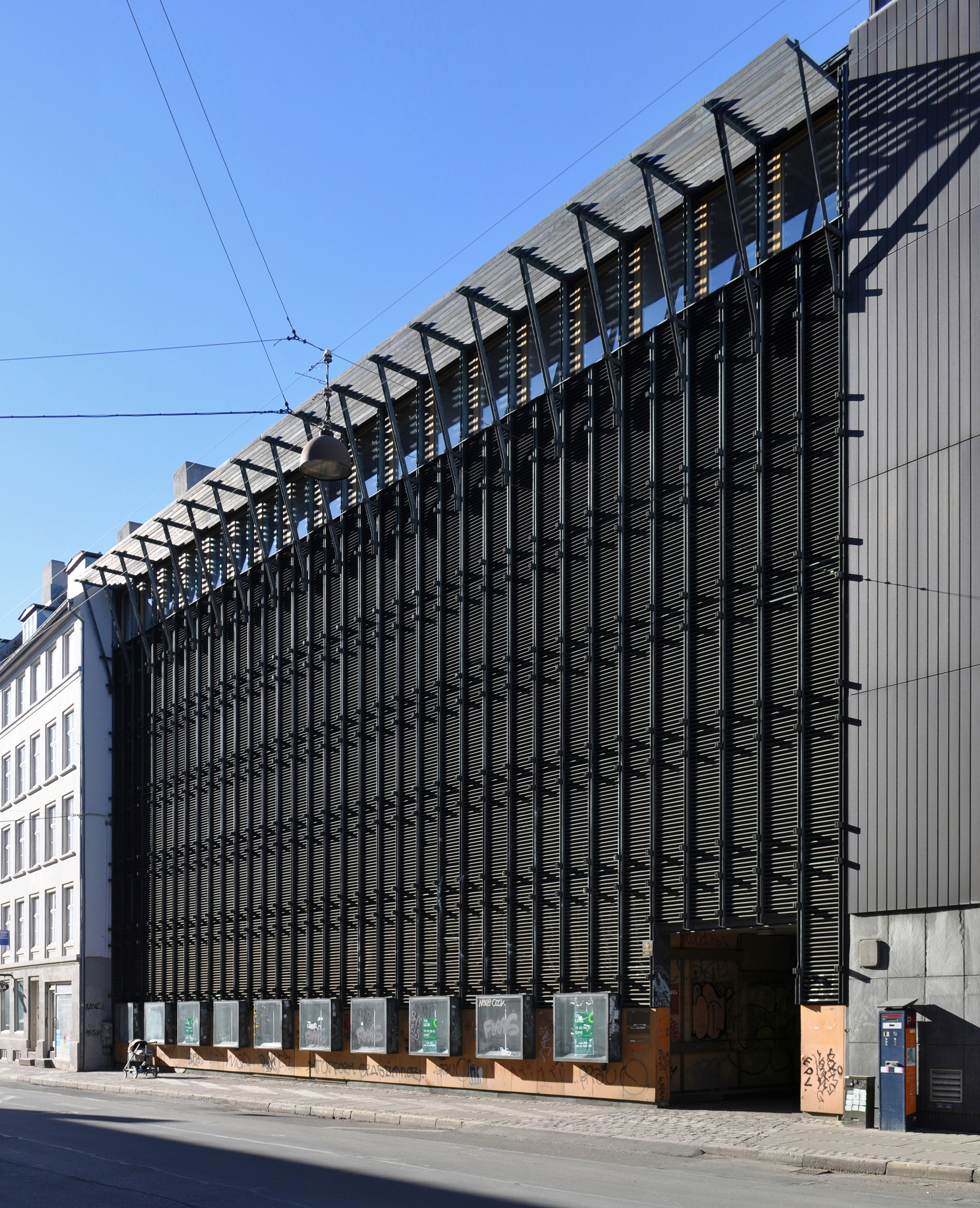 bremerholm transformer, bremerholm 6, copenhagen 1962-1963. architect: hans chr. hansen, 1901-1978, working for the copenhagen municipal architects department under f.c.lund, 1896-1984.